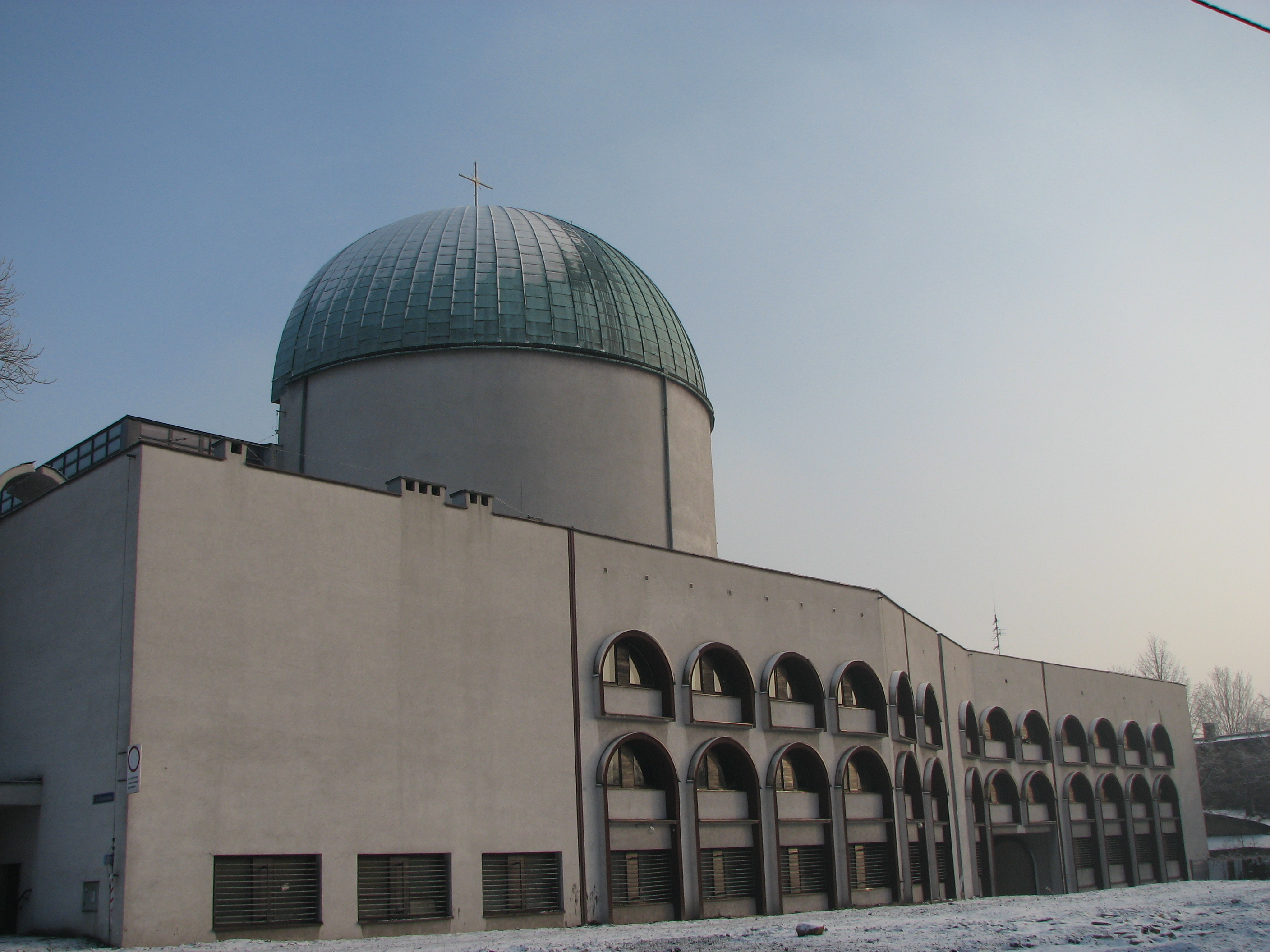 Franciscan Monastery in Chorzów Klimzowiec, Poland